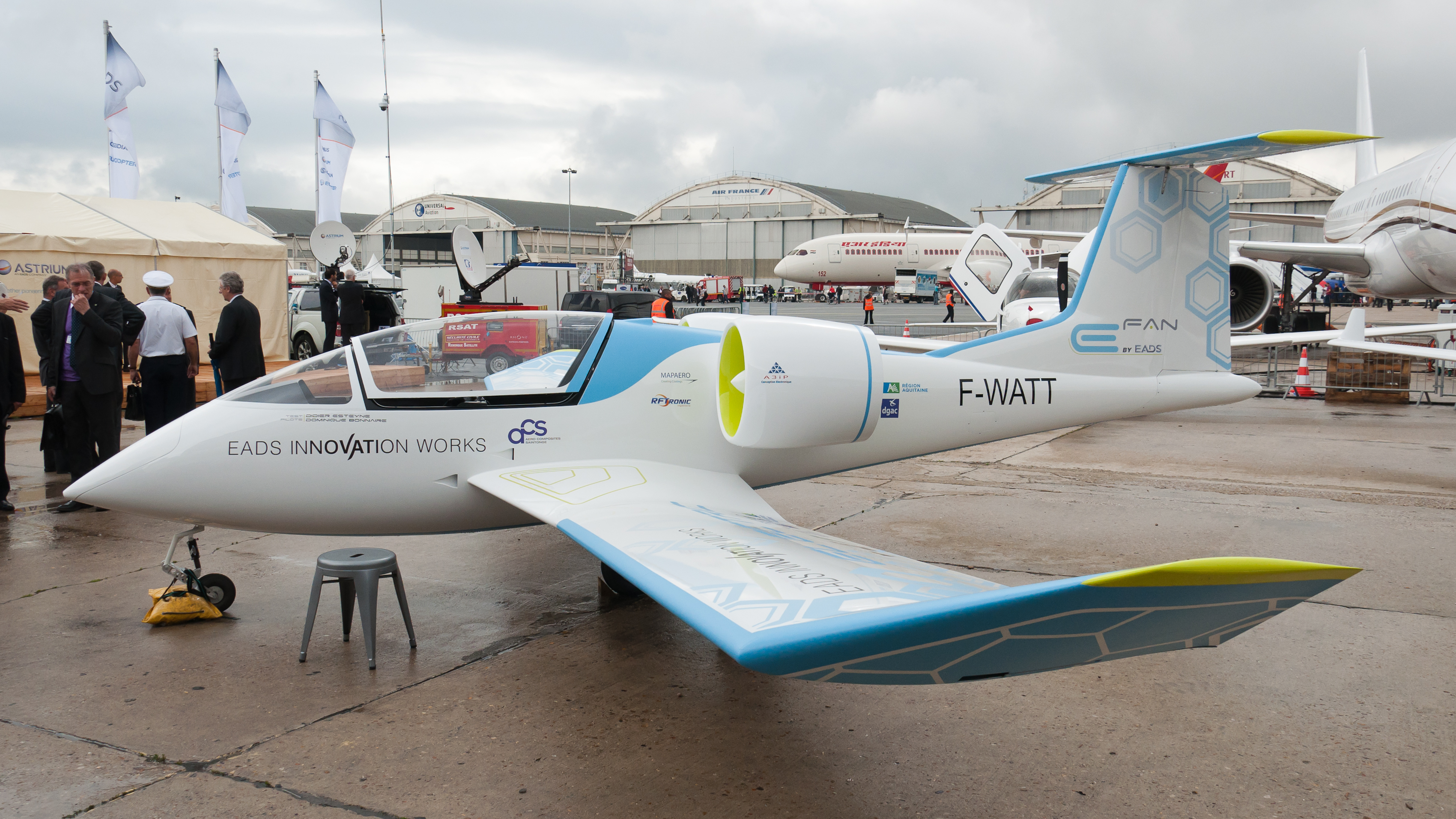 EADS Innovation Works/ACS E-Fan mock-up (reg. F-WATT) at Paris Air Show 2013.